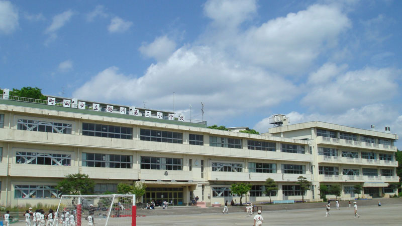 Tsurukawa-Third-Elementary-School at Tsurukawa, Machida, TOKYO